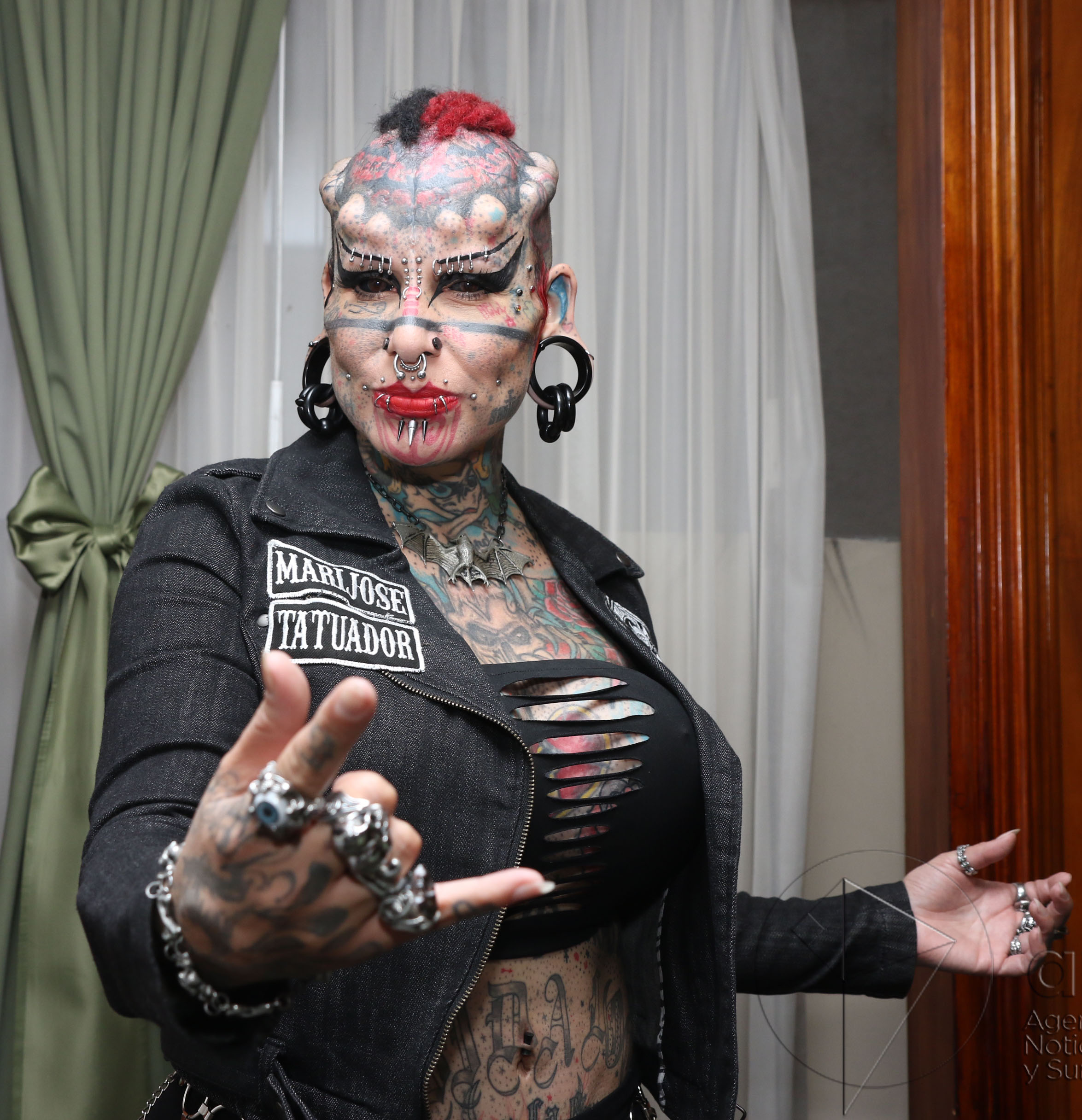 María José Cristerna Méndez, Mexican lawyer and tattoo artist at the First National Middle of the World (Ecuador) Tattoo Convention in 2016.